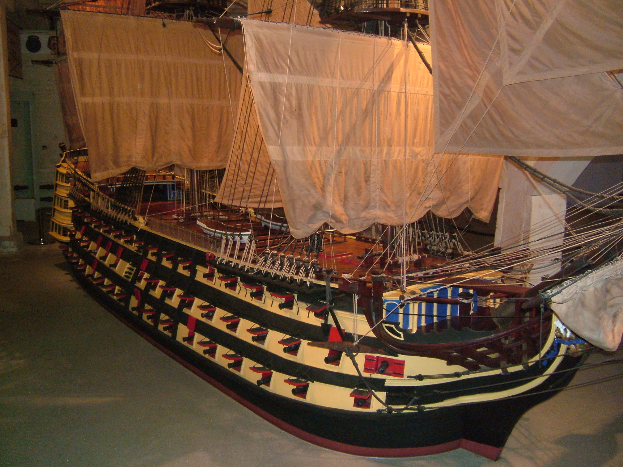 Chatham Dockyard, Kent,England has the finest collection of 18th and 19th century naval dockyard buildings many of which are scheduled as ancient monuments. HMS Victory made for the 1941 film That Hamilton Woman starring Laurence Olivier and Vivien Leigh - OpenStreetMap(Info) Category: HMS Victory (1765)